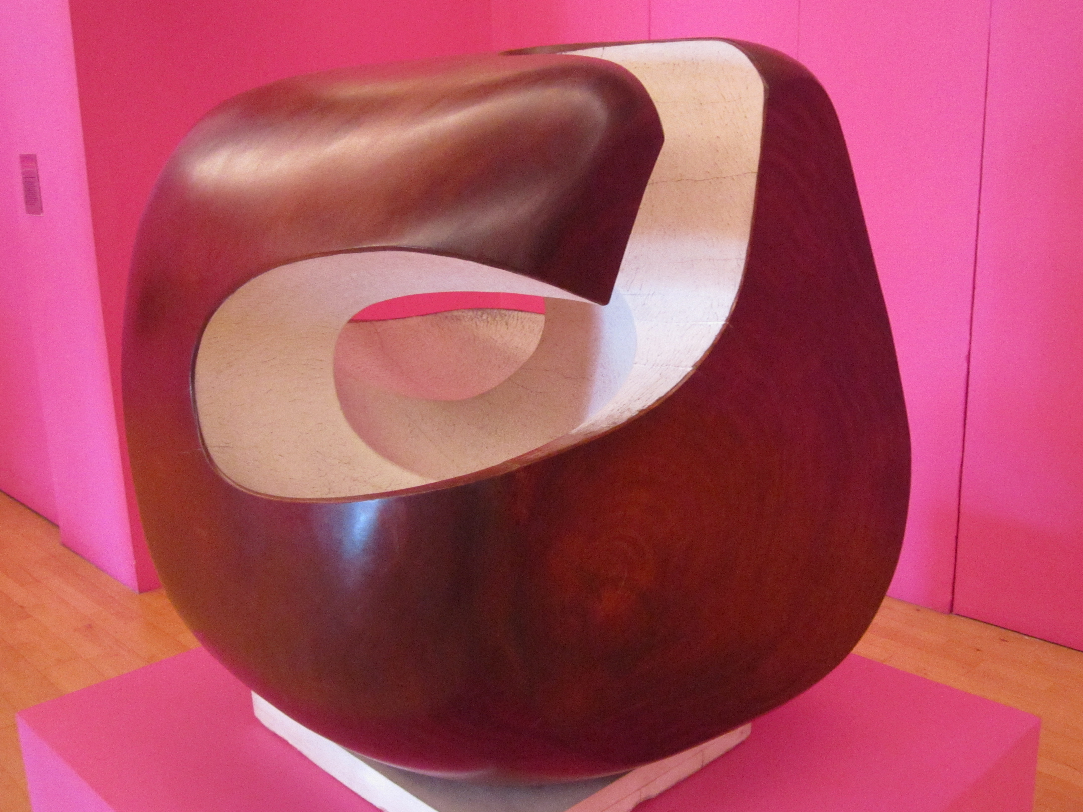 Corinthos by Barbara Hepworth, Tate Liverpool, England.